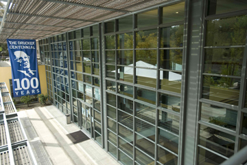 Exterior of the Ron W. Burkle Building in Claremont, California. Home of the Peter Drucker and Masatoshi Ito Graduate School of Management